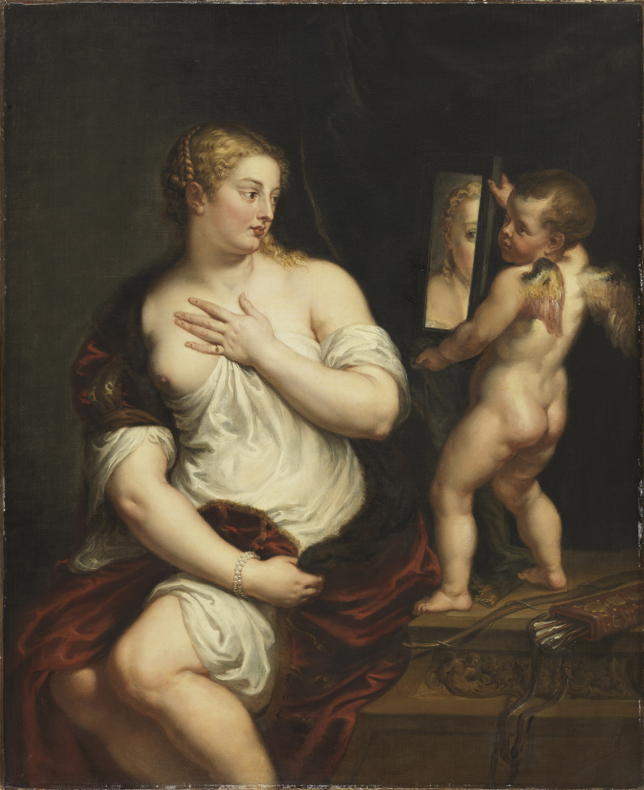 Venus and Cupid holding a mirror, oil on canvas after Titian made by Peter Paul Rubens, belonging to the Thyssen-Bornemisza Museum in Madrid, photographed at the exhibition "Rubens et son Temps" (Rubens and his Time) at the Louvre-Lens museum.